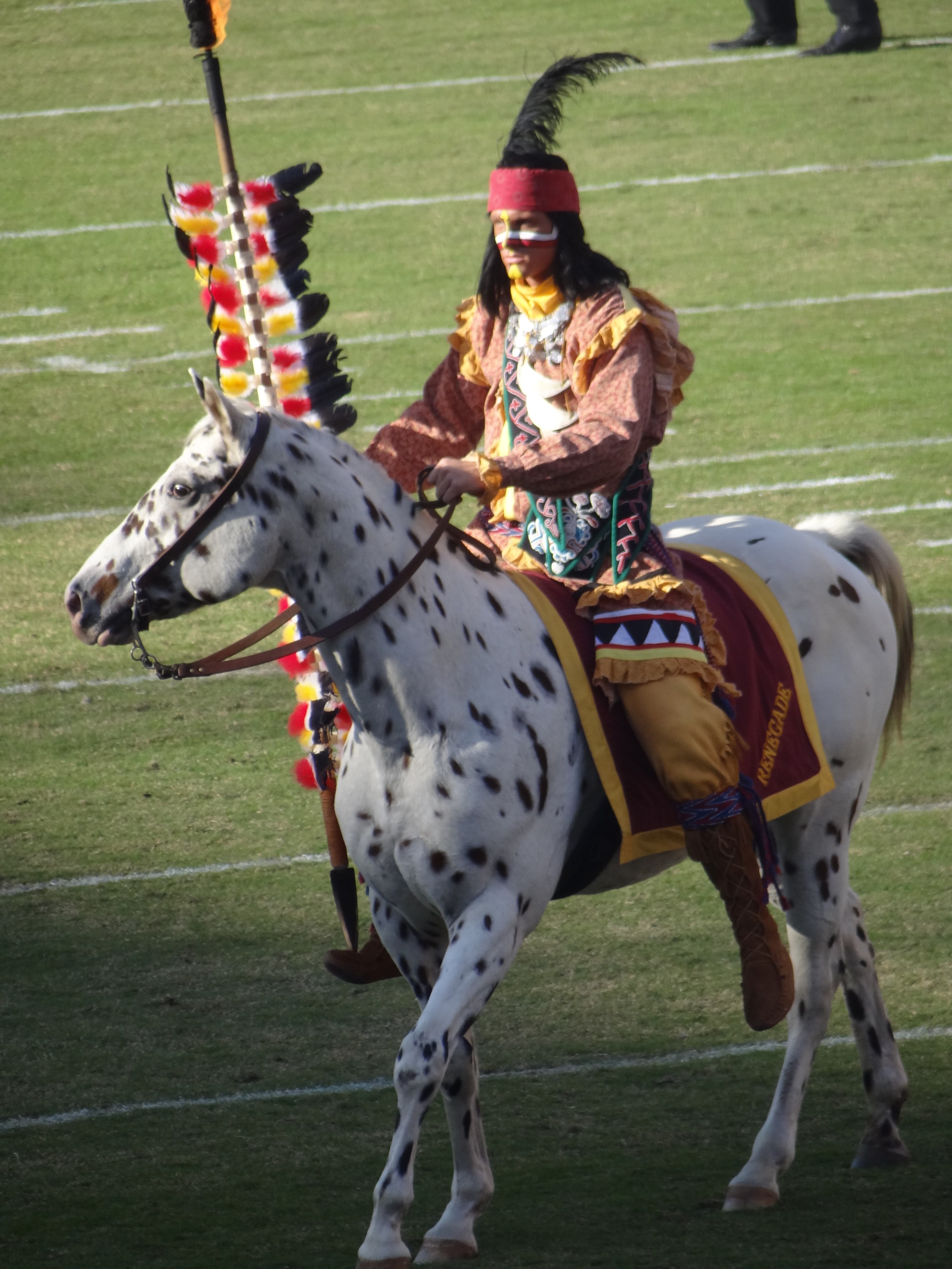 Chief Osceola and renegade taken at the 2011 Miami game in Tallahassee, FL.